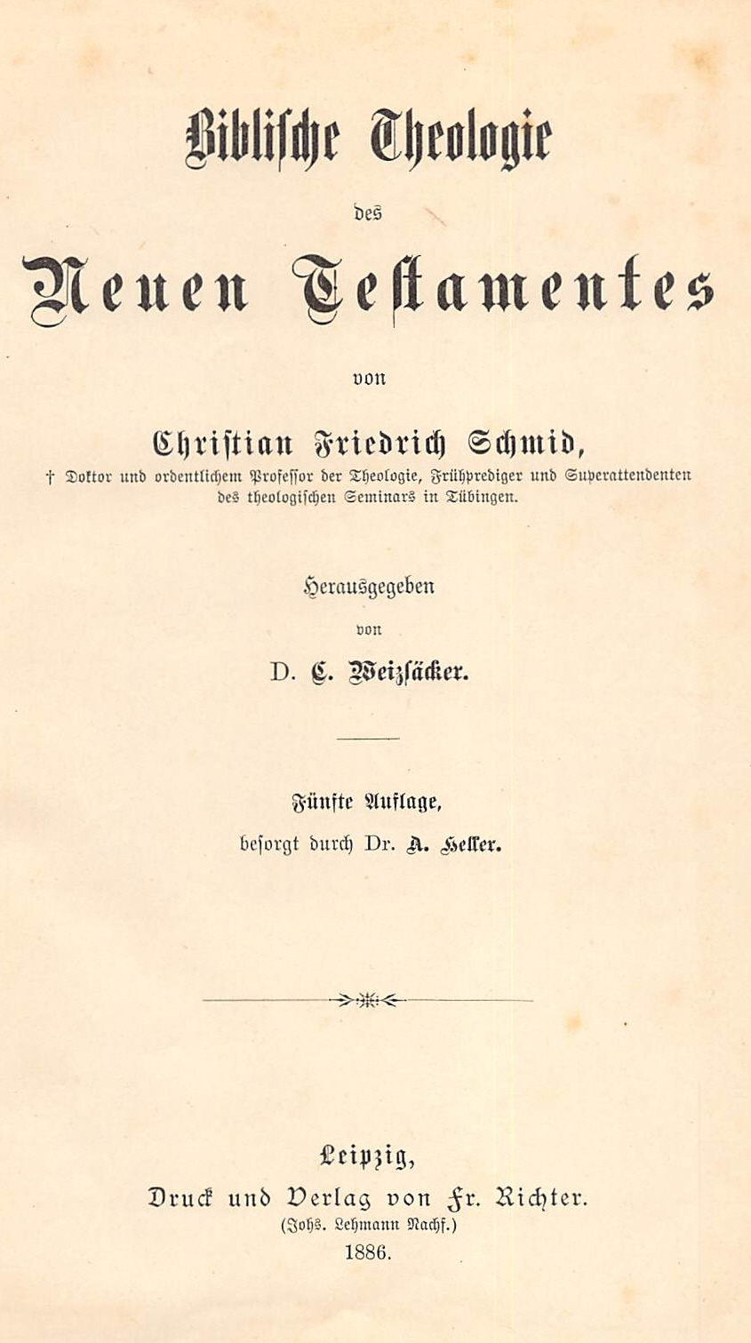 Christian Friedrich Schmid, Biblische Theologie, 5. Aufl. 1886